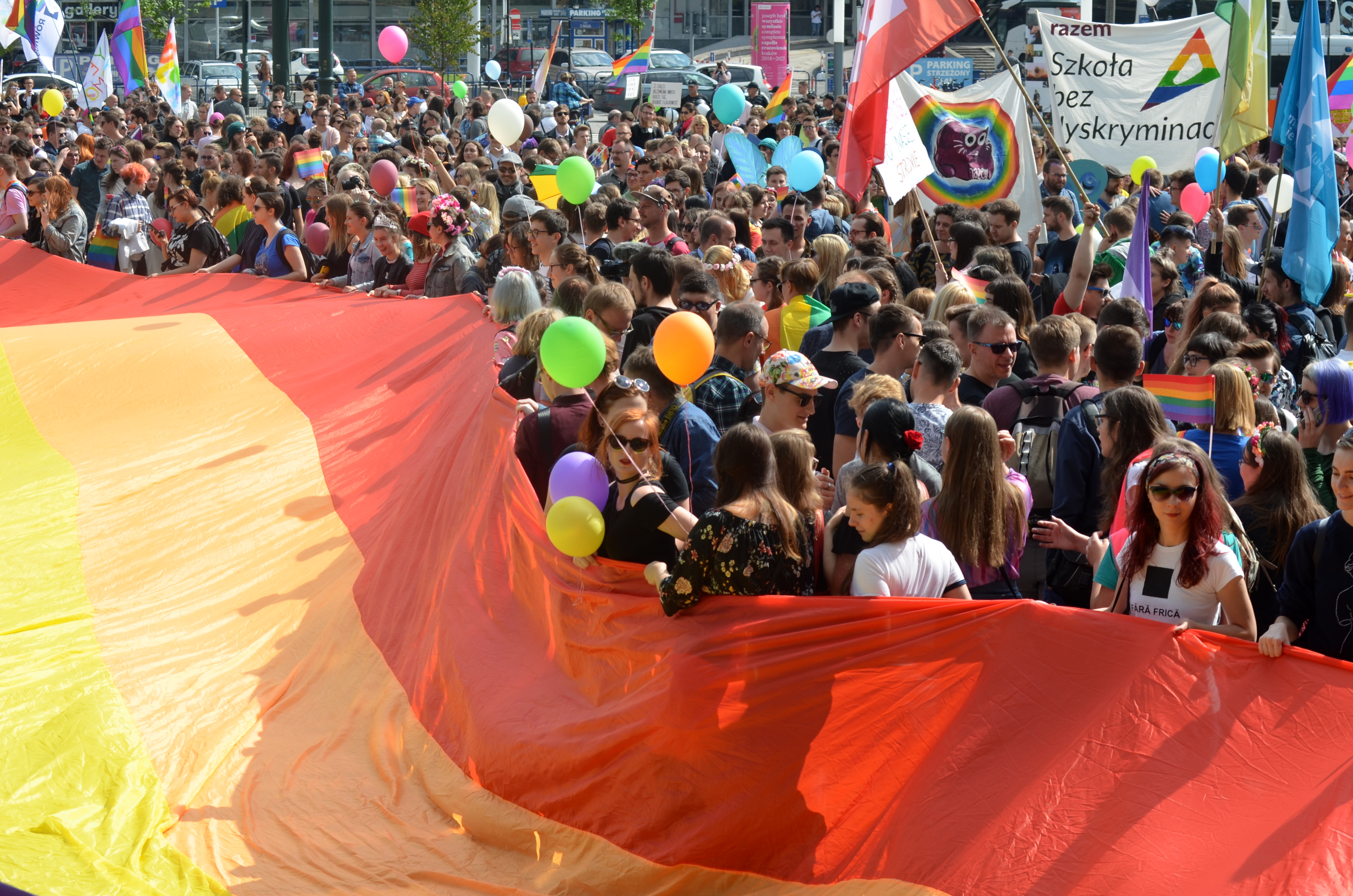 Das Queer Mai Festival 2018, die Kultur der LGBTQI in Krakau, Marsch der Gleichheit am 19. Mai 2018